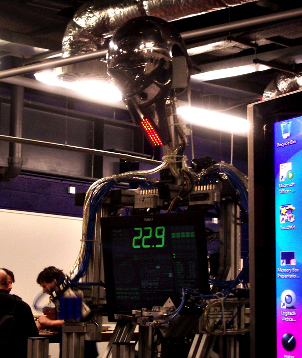 RuBot II working on a Rubik's Cube at Maker Faire UK 2010